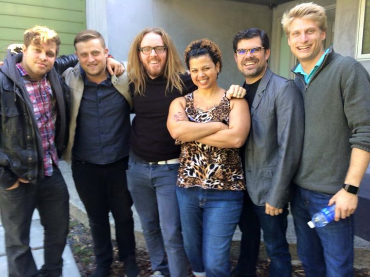 This photo was taking after filming an interview with Tim Minchin and Ryan Bell for the documentary A Year Without God.